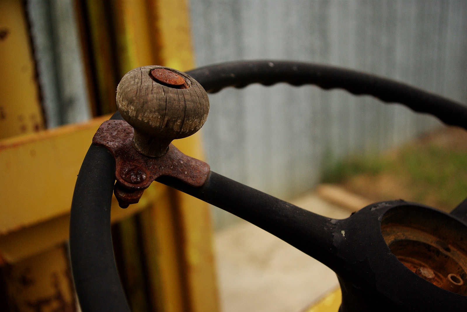 Aged rusty Brodie knob, or steering wheel spinner, on the steering wheel of a forklift, in Cullman County, Alabama, United States.